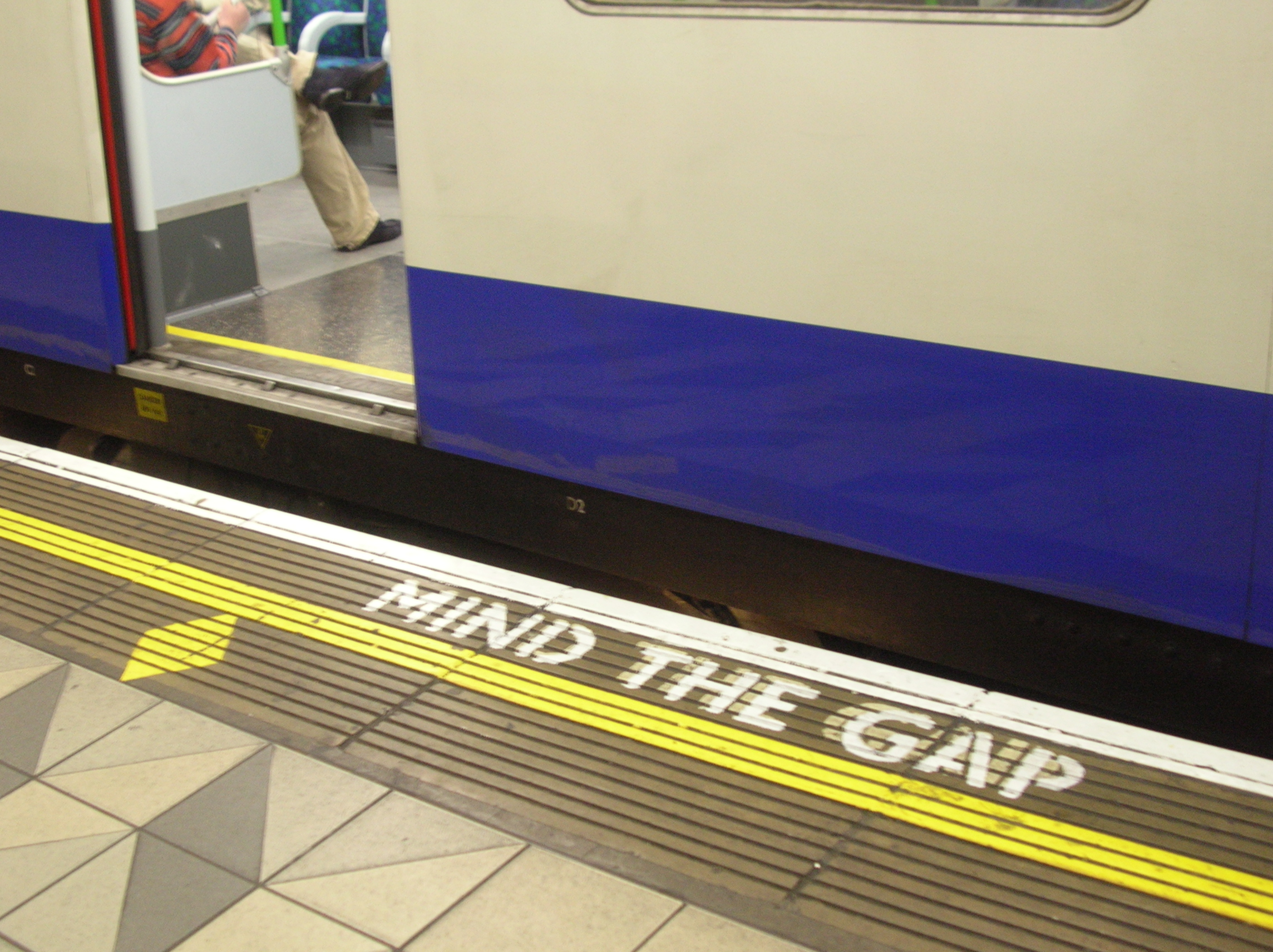 "Mind The Gap" inscription on the London Underground, Bank station.